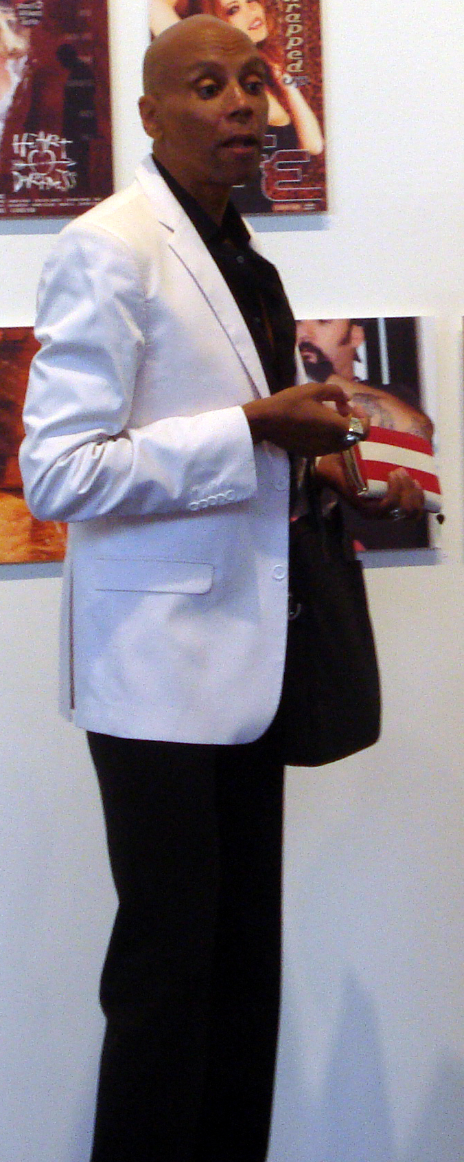 RuPaul (left) seen out of drag